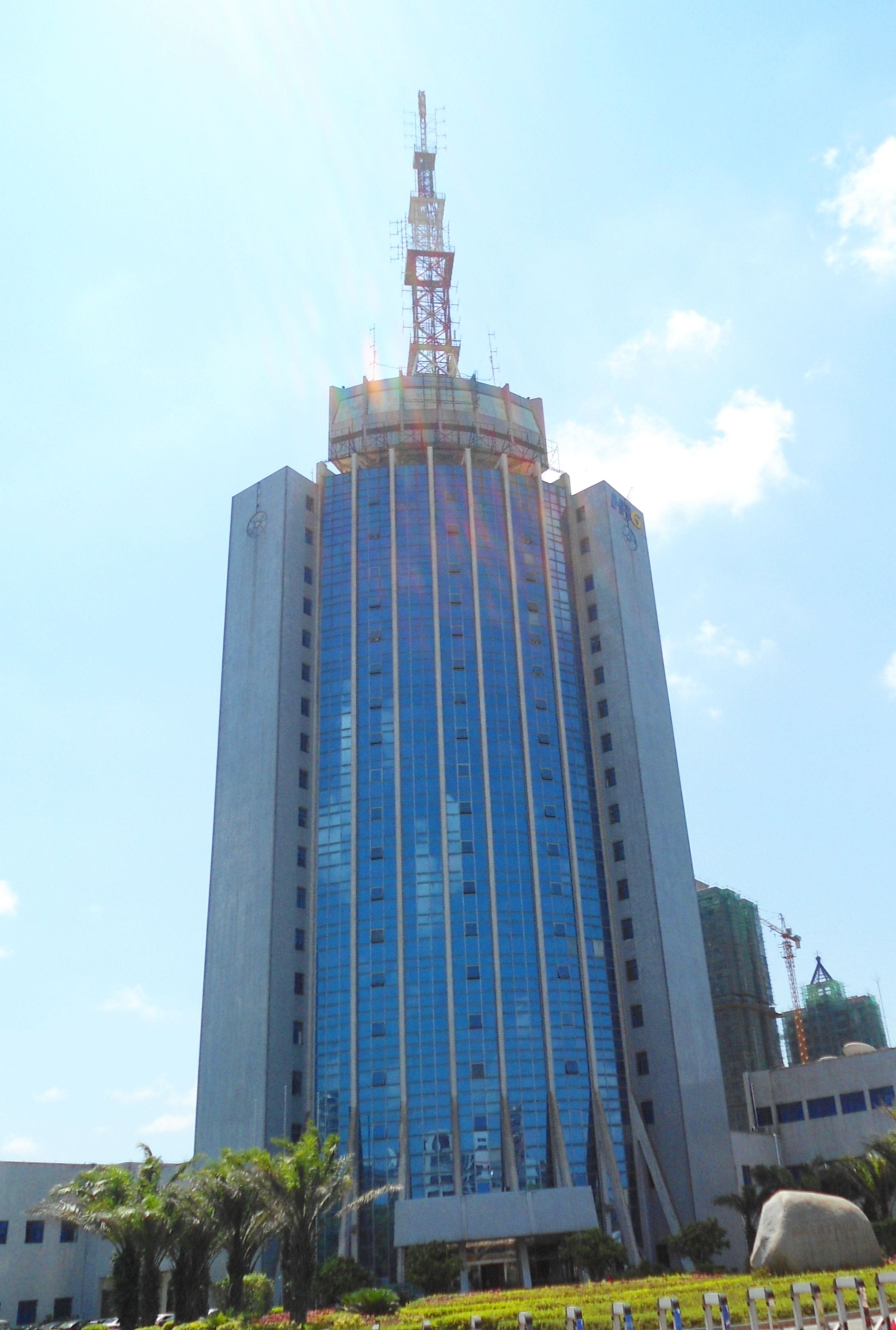 Hainan Broadcasting Network (HBN) building in Haikou City, Hainan Province, China.